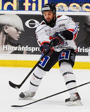 Eric Himelfarb during a SHL game against AIK.